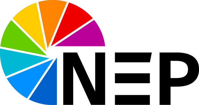 NEP